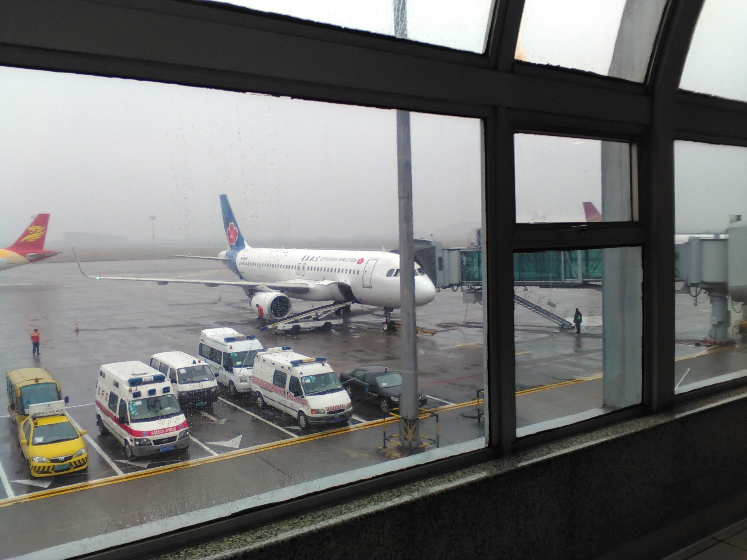 Qingdao Airlines A320 at Guilin Liangjiang International Airport.